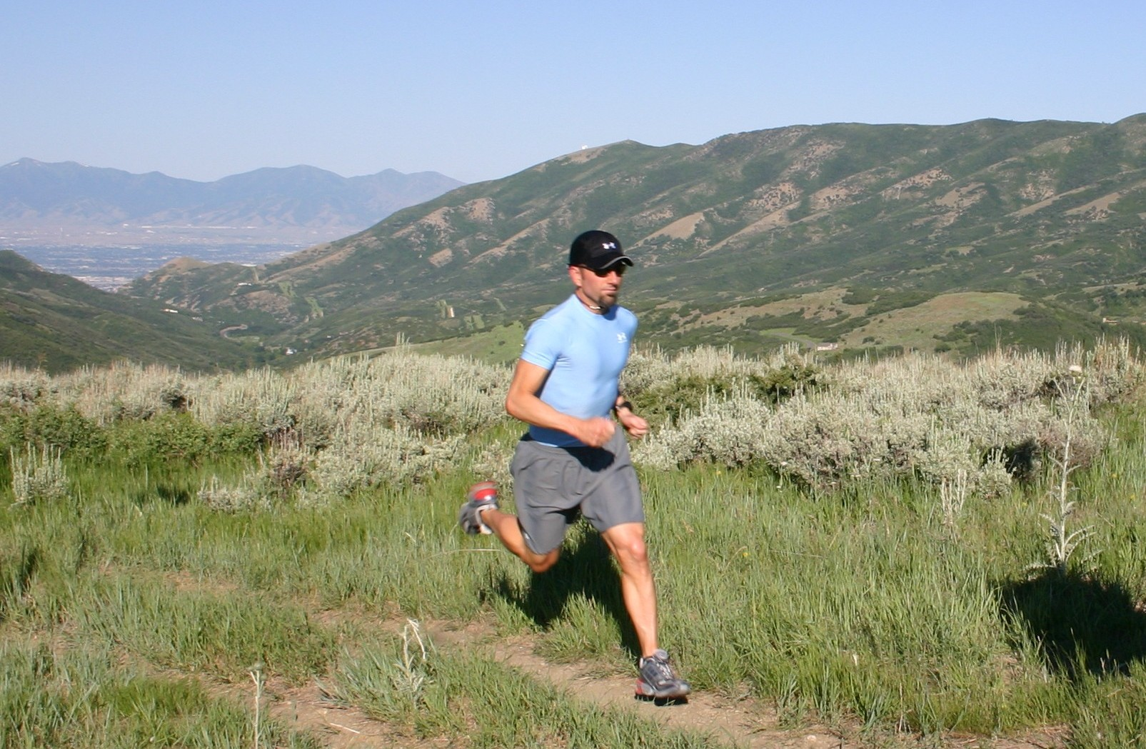 A ultramarathoner running the 32 Mile Wyoming Ultramarathon in the Bighorn Mountains